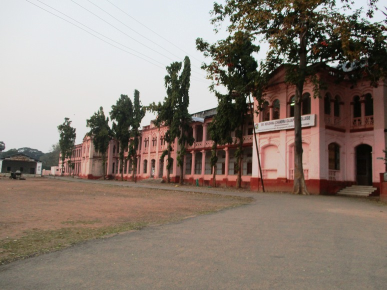 Sri Krushna Chandra Gajapati College